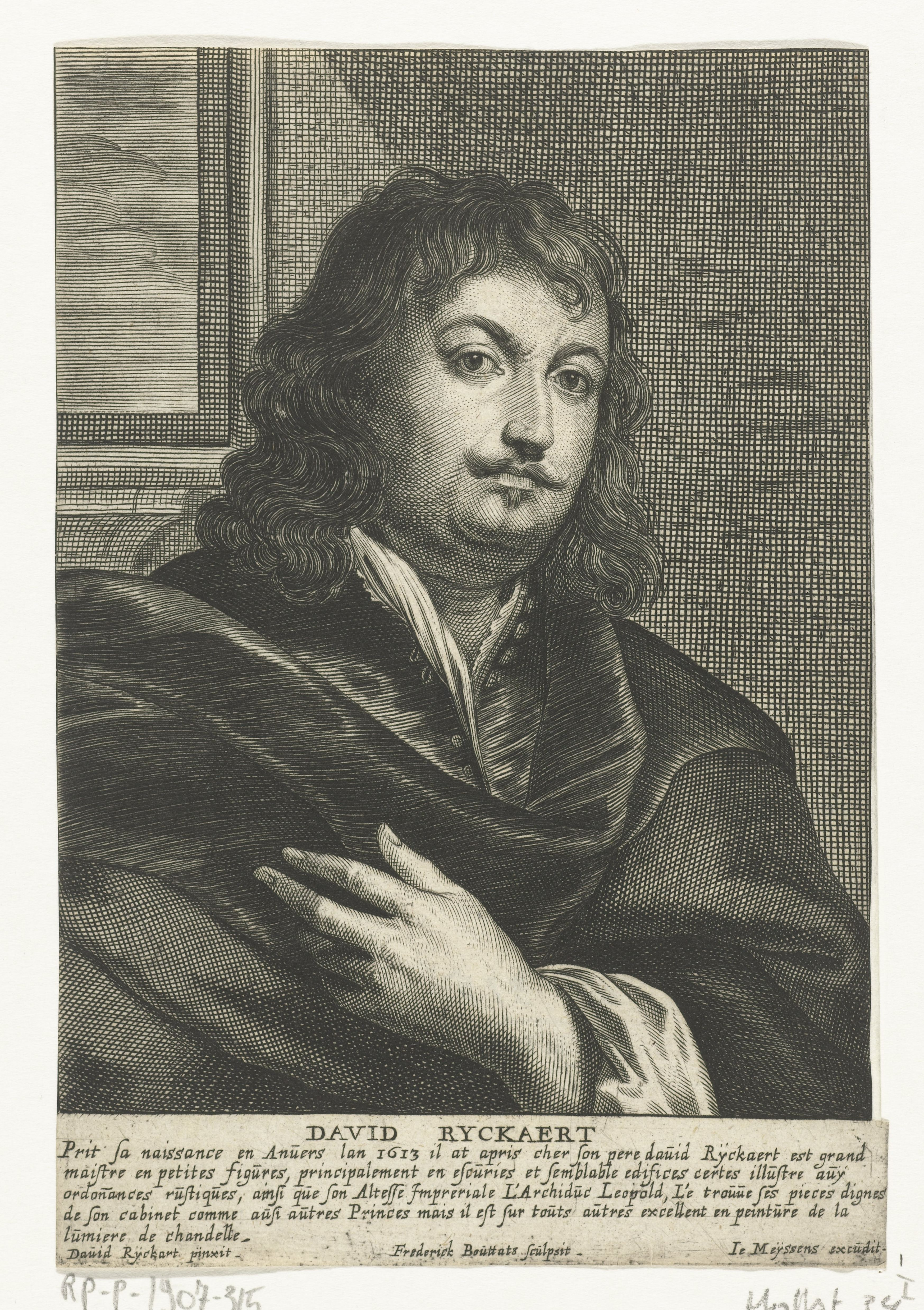 Portrait of David Rijckaert (III)